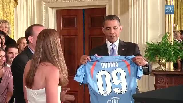 President Barack Obama welcomes the Women's Professional Soccer champions Sky Blue FC in the East Room of the White House, July 1, 2010. The President honored their winning of the inaugural Women's Professional Soccer championship. Screenshot taken from official White House video.